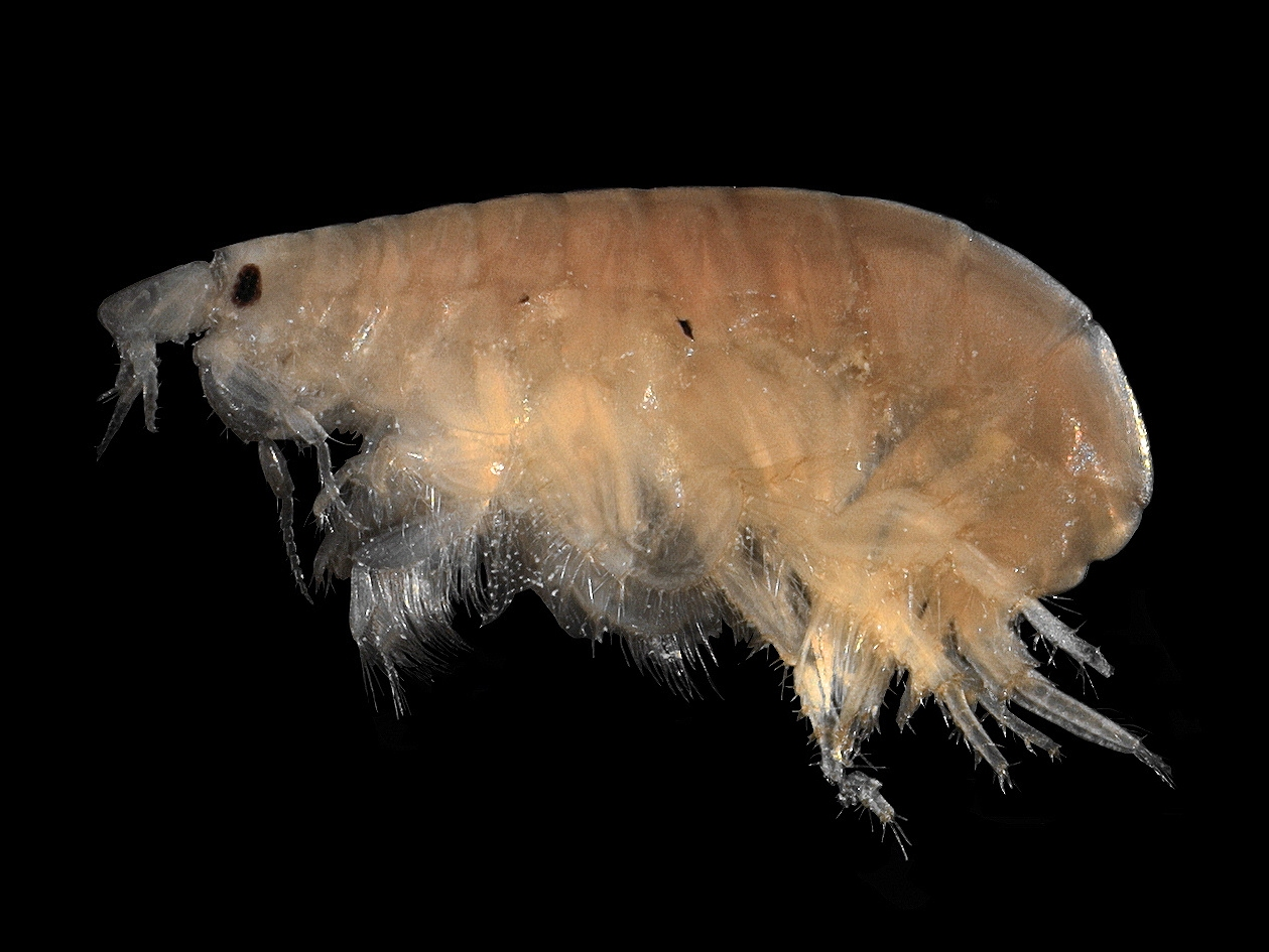 Burying amphipod from intertidal sandy substrates.Camera mounted on a Zeiss Stemi C-2000 binocular microscopeLength: ~6 mm.Belgian Coast.